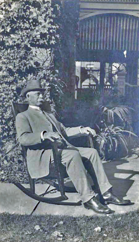 Capt. Edward Lyon Buchwalter (June 1, 1841–1933)(at home) was a Union Captain in the American Civil War, farmer, corporate figure and banker. He served in the 114th Ohio Infantry as lieutenant, later Captain of the 53rd Mississippi Colored Volunteers Infantry under General Sherman and General Grant. He was President of Superior Drill Company, President of American Seeding Machine Company and first President of The Citizens National Bank of Springfield, Ohio. Married to Marilla Andrews. This copy was made from my original photograph and contributed here by J.Guy George, great, great grandnephew of said subject. Photo Circa 1890's. J.Guy George/April 14, 2012.